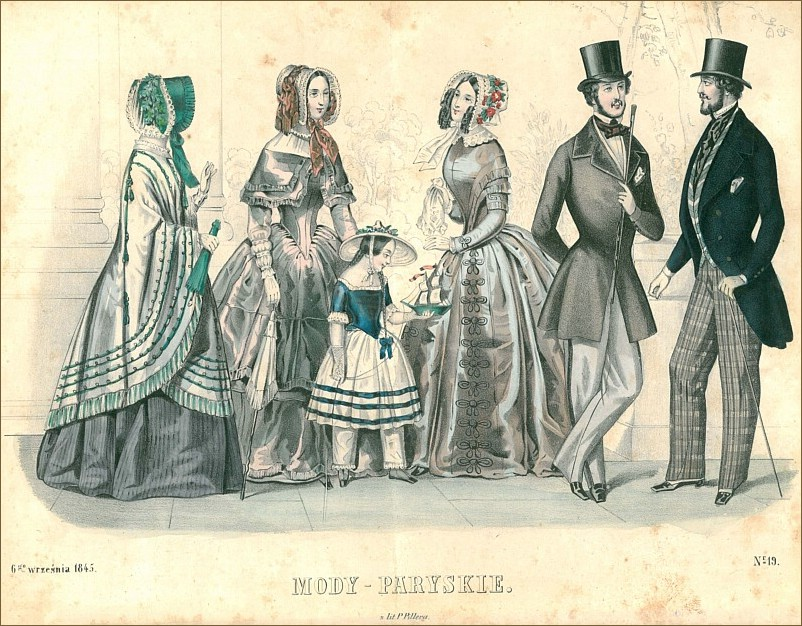 1845 fashion plate of outdoors clothing styles for women, men, and girls